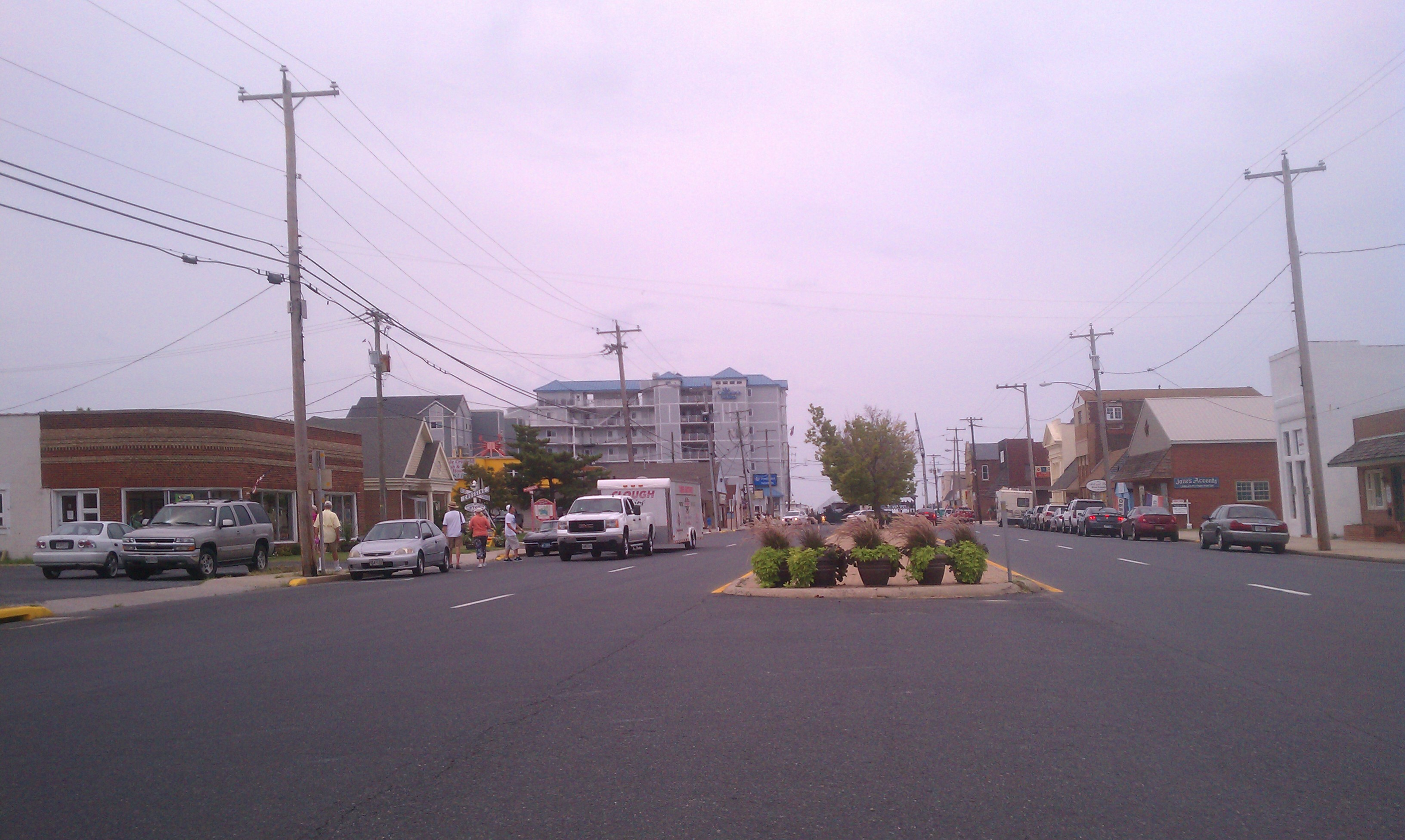 View of Maryland Route 413 in Crisfield, near its south end in Downtown, during the National Hard Crab Derby.